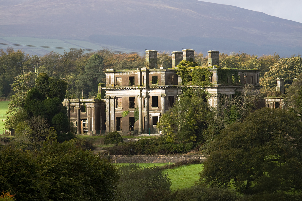 Ruins of Castleboro House, County Wexford, Ireland